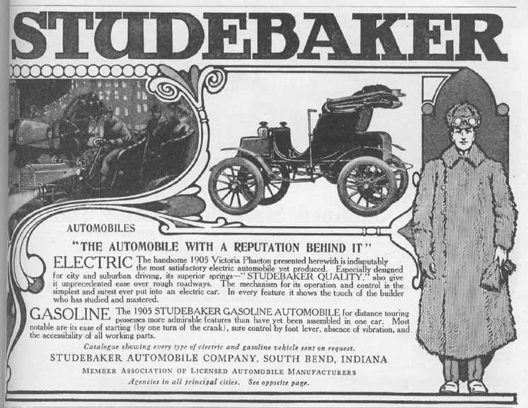 Copy of a 1905 Studebaker Electric Car Ad that was published in 1905.